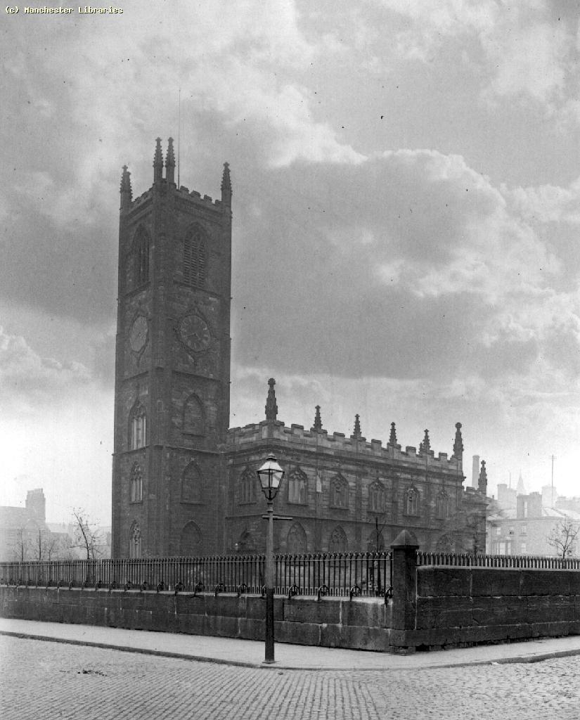 Former parish church of St John, Manchester, England, seen from the southwest circa 1900. Photograph taken by RA Pattrieoux (1863–1938) as part of a survey of Mancunian buildings by the Manchester Amateur Photographic Society.